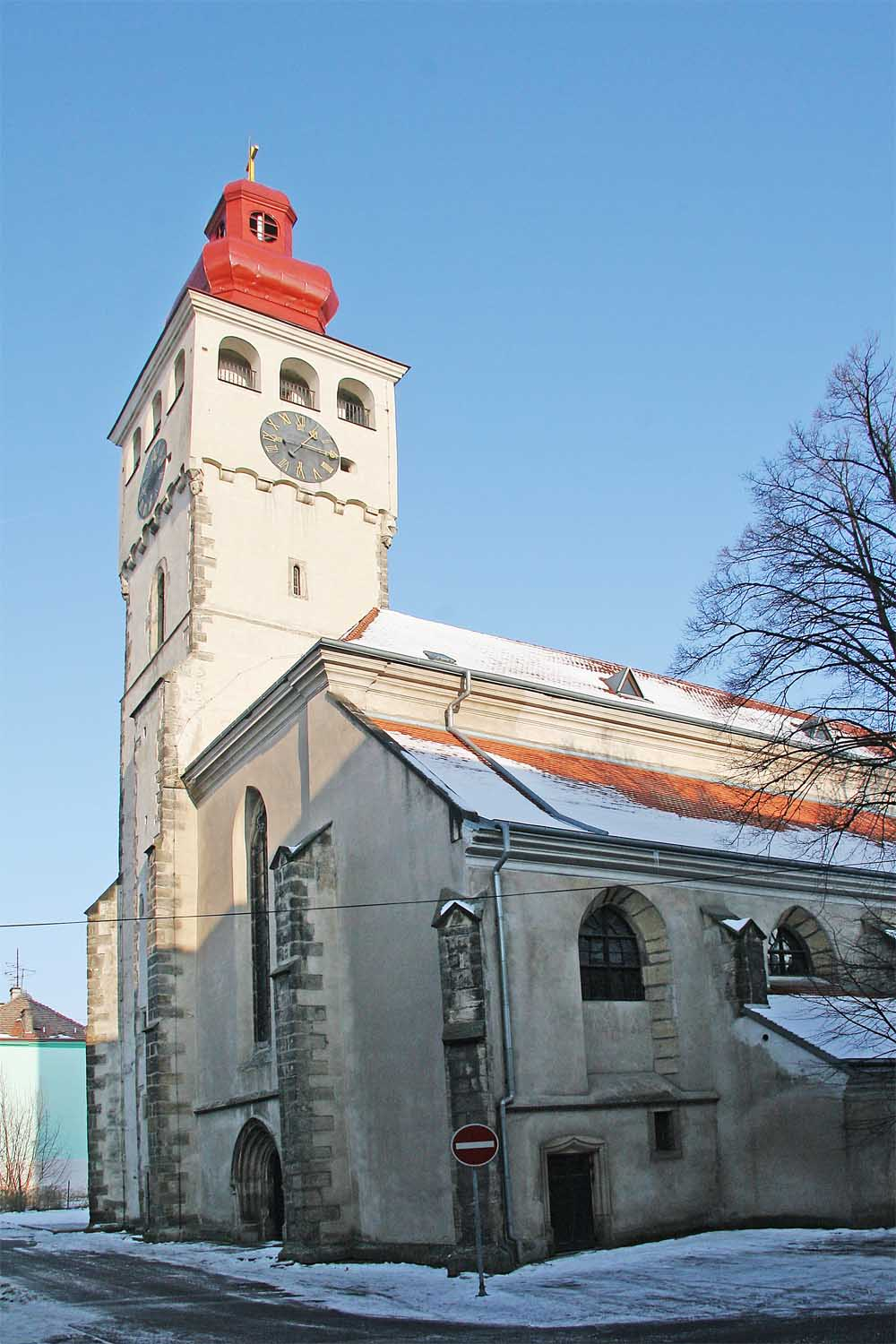 St Lawrence church in Nový Bydžov